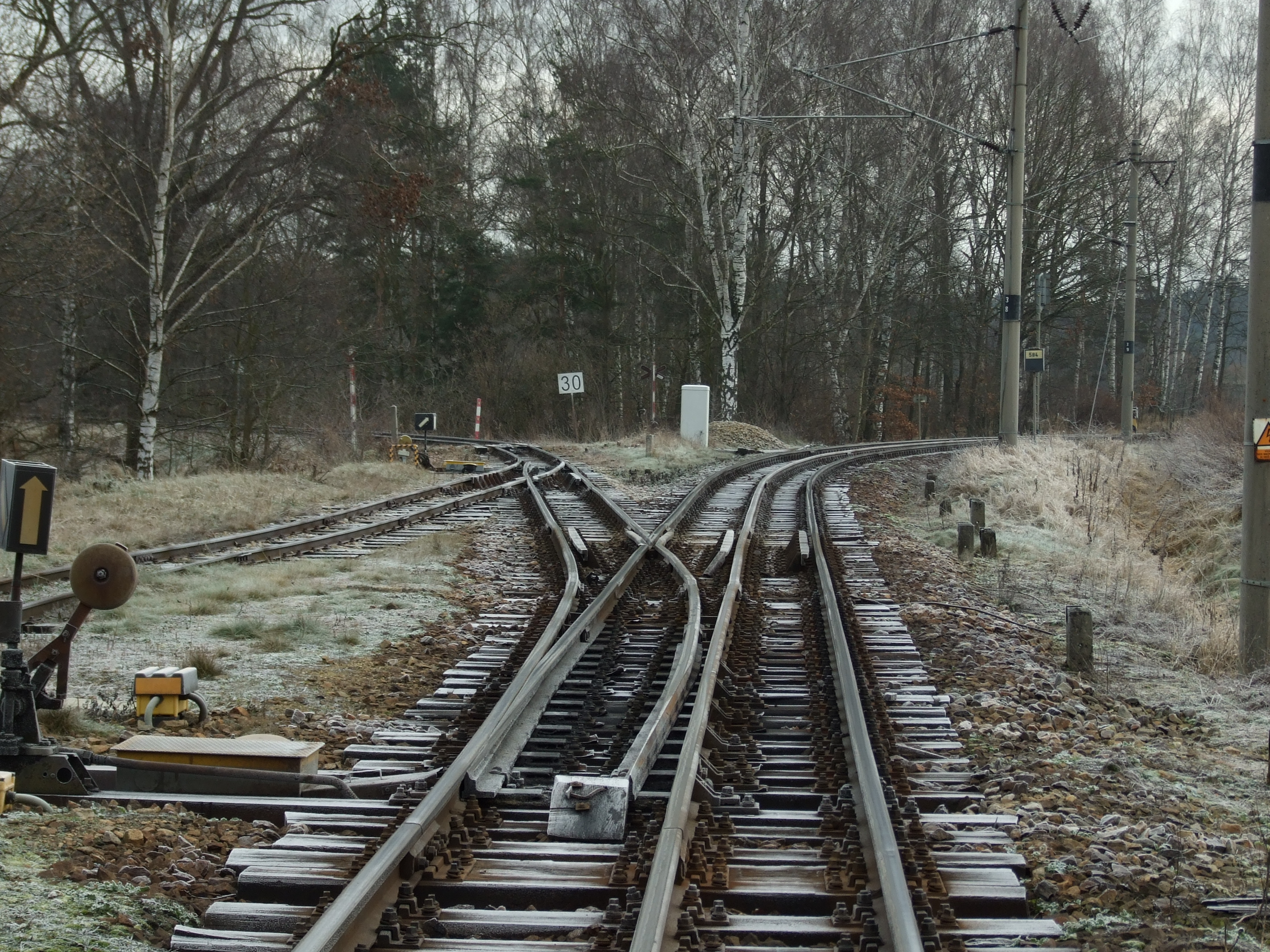 Junction of JHMD - track to Obrataň near Dolní Skrýchov, one of the city parts of Jindřichův Hradec, South Bohemian Region, CZhelp